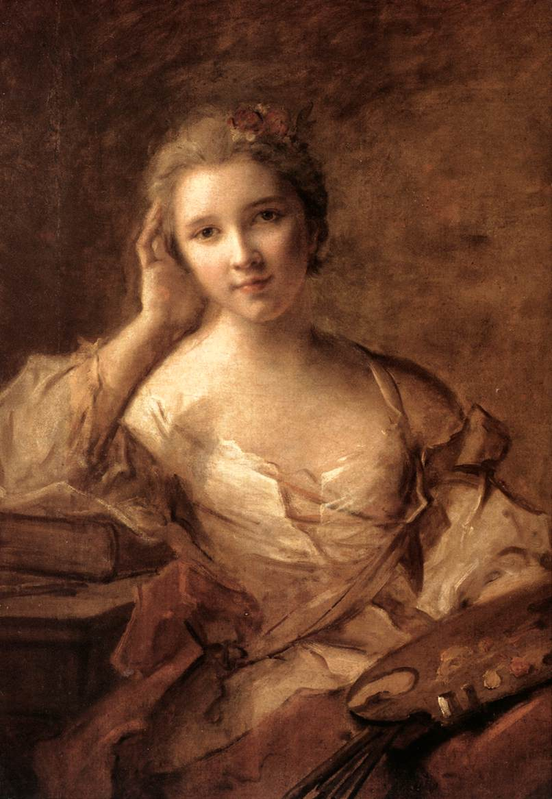 Portrait of a young woman Painter